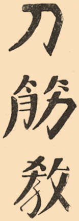 Illustration from Brockhaus and Efron Jewish Encyclopedia (1906—1913)